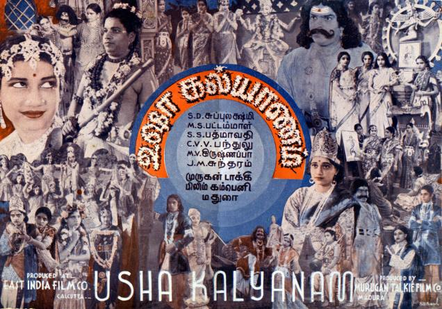 A snapshot from the 1936 Tamil film Usha Kalyanam